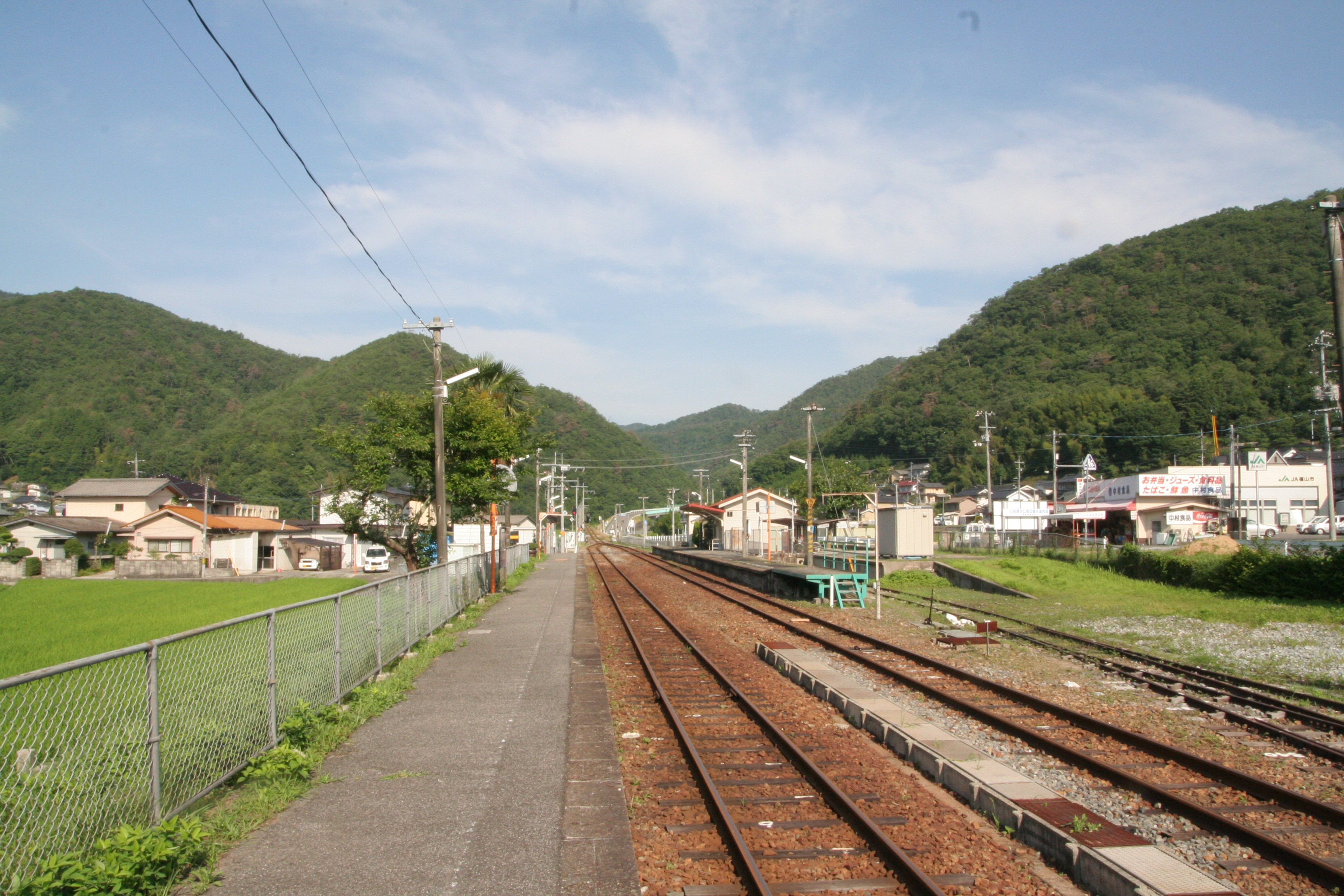 West Japan Railway Fukuen Line Kawasa Station enclosure